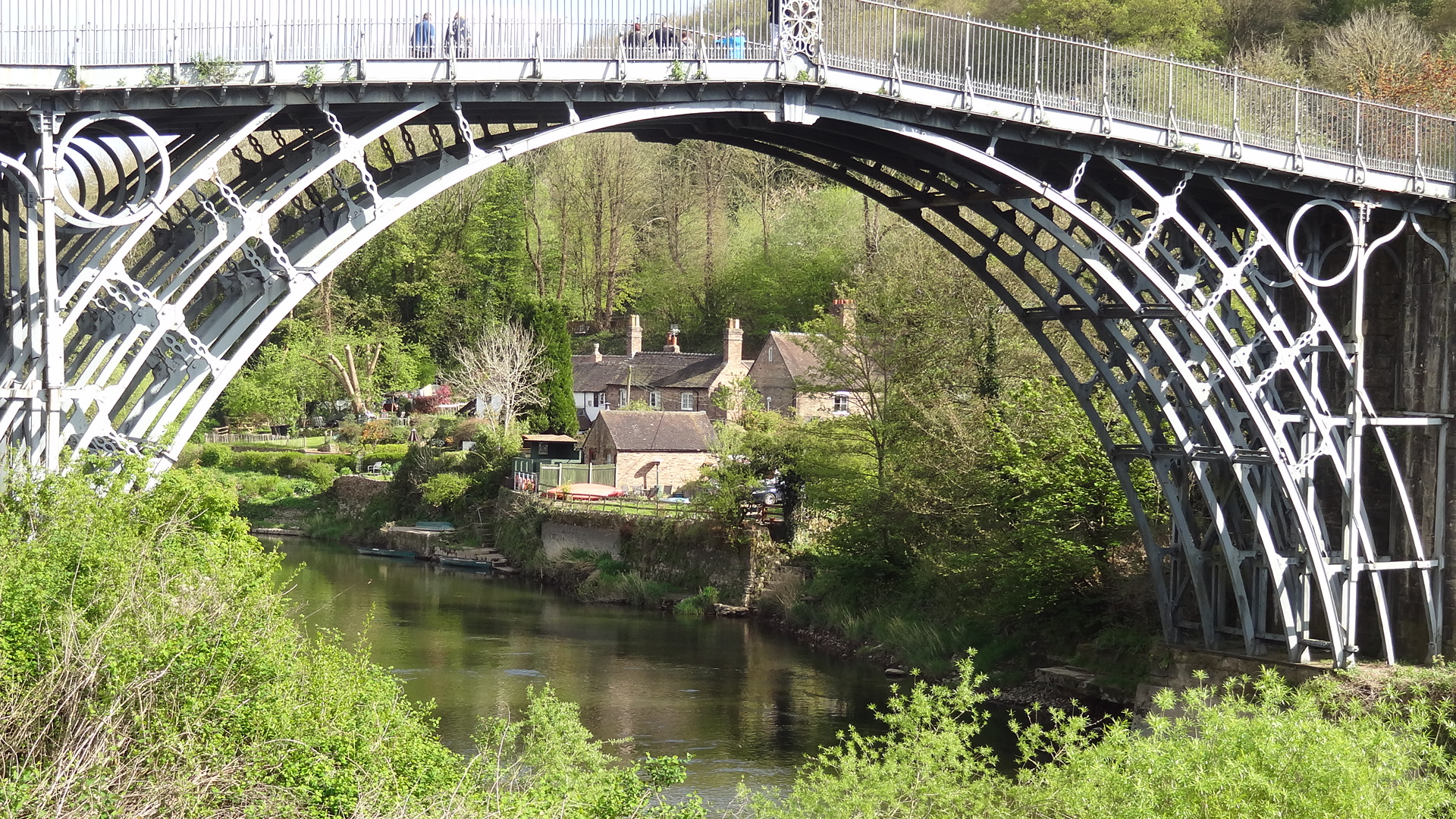 The Iron Bridge and cottages in Bower Yard, Benthall, Shropshire